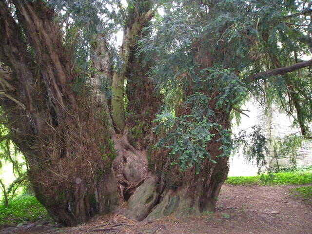 Yew Tree One of several enormous yew trees growing in the churchyard which might well be as old as the church. As a Christian symbol, the yew represents life in that it seems immortal, and death because of its poisonous red berries and the springy wood used for making longbows.